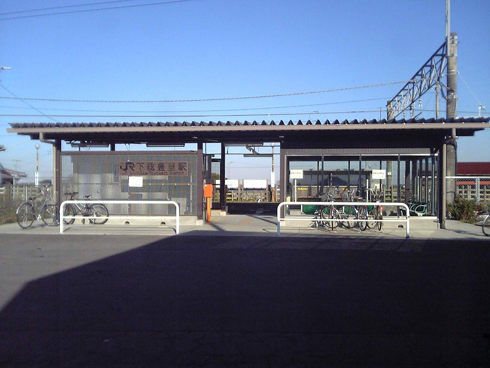 Shimosa-Toyosato Station. Taken on 20 December 2009